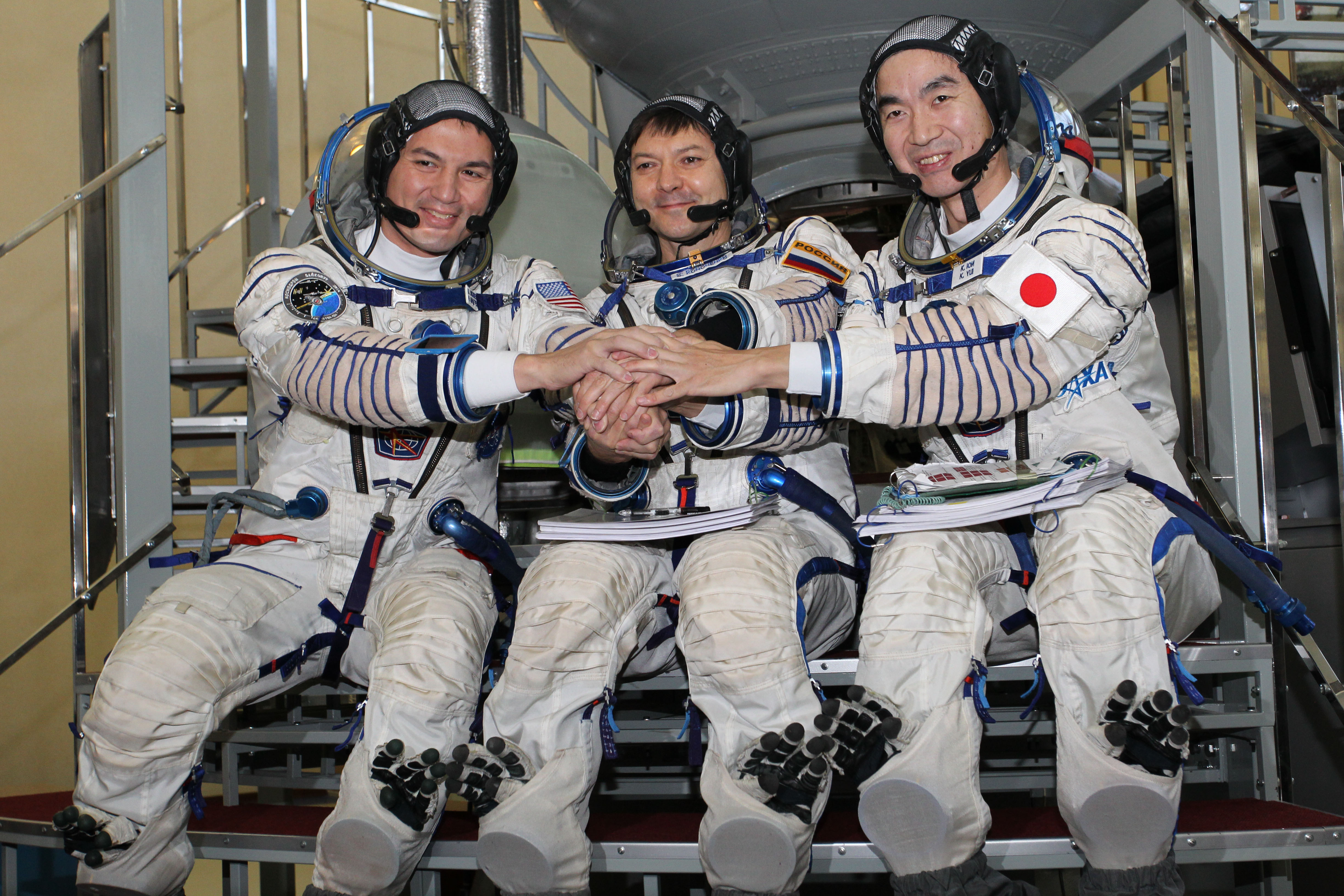 At the Gagarin Cosmonaut Training Center in Star City, Russia, Expedition 42/43 backup crewmembers Kjell Lindgren of NASA (left), Soyuz Commander Oleg Kononenko of the Russian Federal Space Agency (Roscosmos, center) and Kimiya Yui of the Japan Aerospace Exploration Agency (right) pose for pictures in front of a Soyuz simulator October 30 as part of their final qualification exams for flight. They are the backups to the prime crew – Terry Virts of NASA, Anton Shkaplerov of Roscosmos and Samantha Cristoforetti of the European Space Agency – who are in the final stages of training for launch November 24, Kazakh time, in the Soyuz TMA-15M spacecraft to begin a five and a half month mission on the International Space Station.